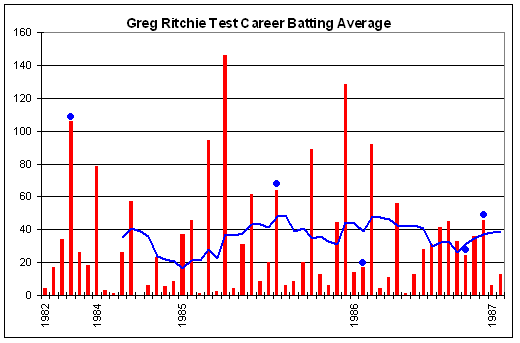 Test batting chart of Greg Ritchie. Red columns are the runs in the innings. Blue dots indicate not outs. Blue line is average in the last ten innings. Thanks to Raven4x4x for providing the template.